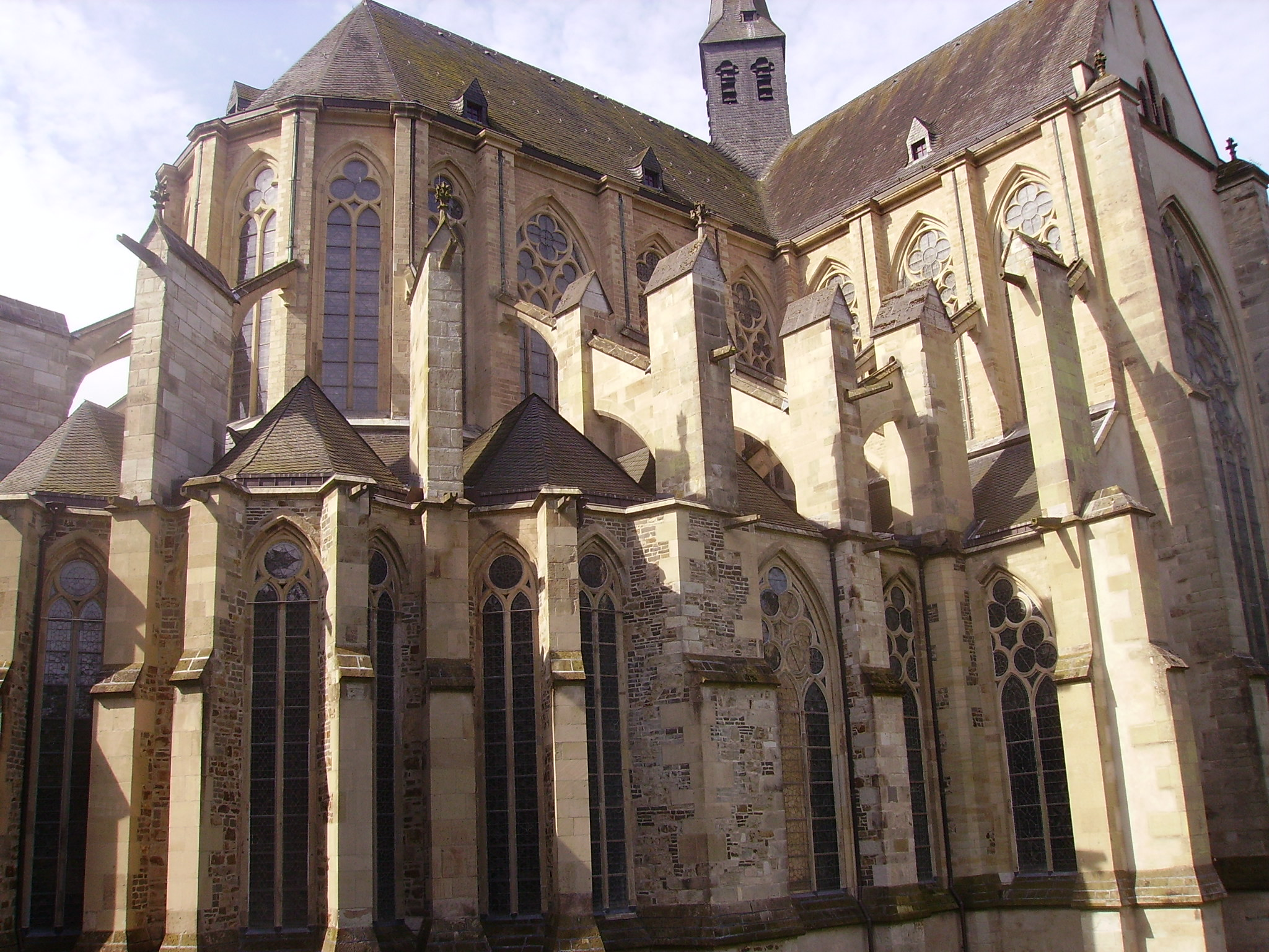 Choir of Altenberg Minster, Odenthal